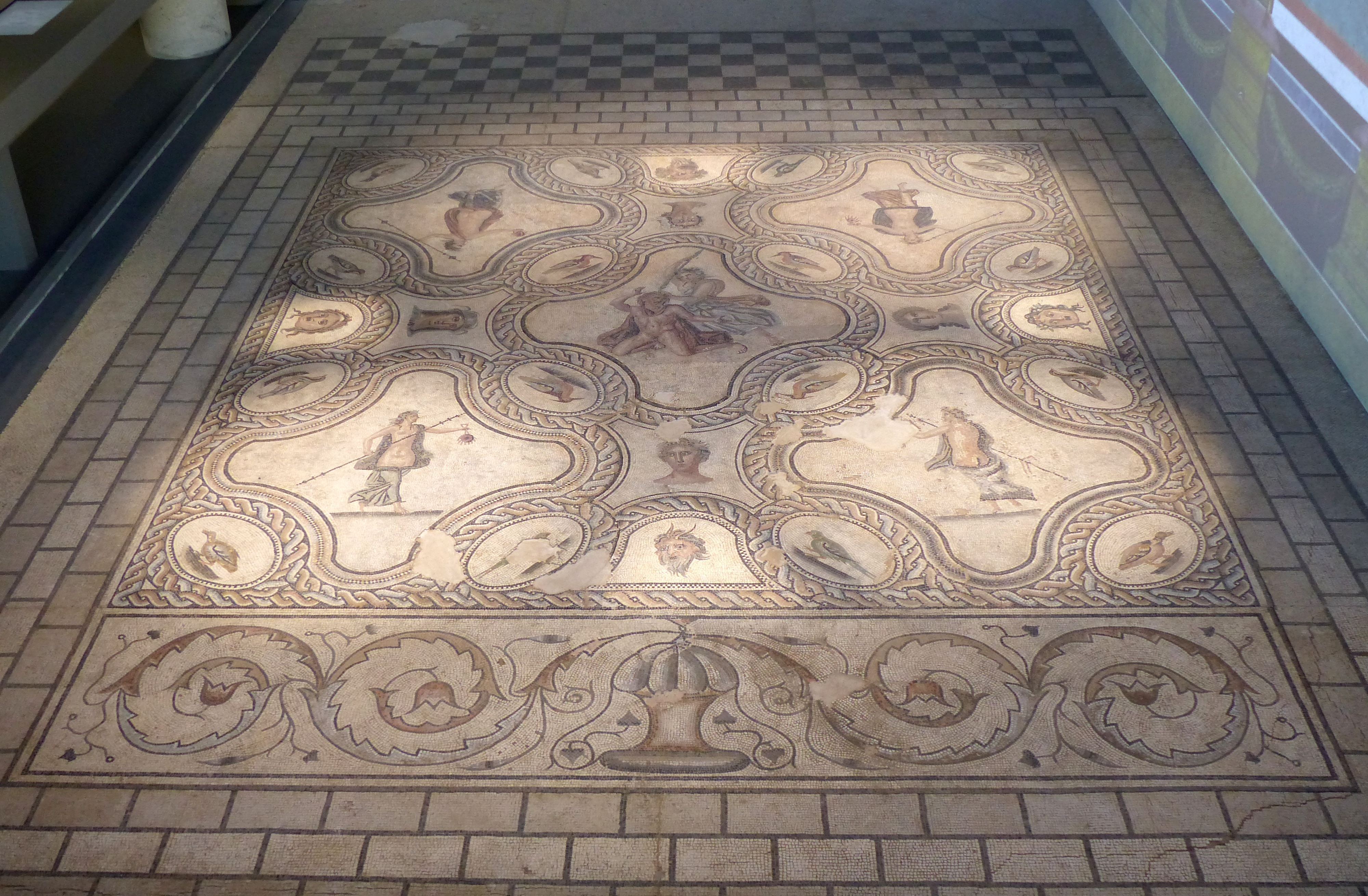 Nîmes (Gard, Occitanie, France), Romanity museum, mosaic of the second century, called "of Pentheus" because illustrating the legend of Pentheu adapted to the theater by Euripide, coming from the room reception of an important character and discovered Jean Jaurès avenue in Nîmes.